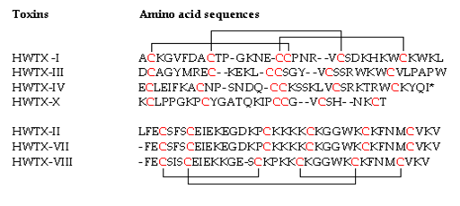 Amino acid sequences of 7 HWTX subtypes